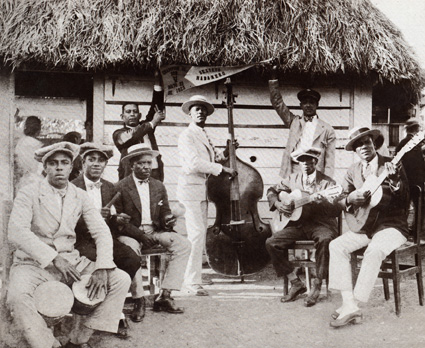 photo of Sexteto Habanero